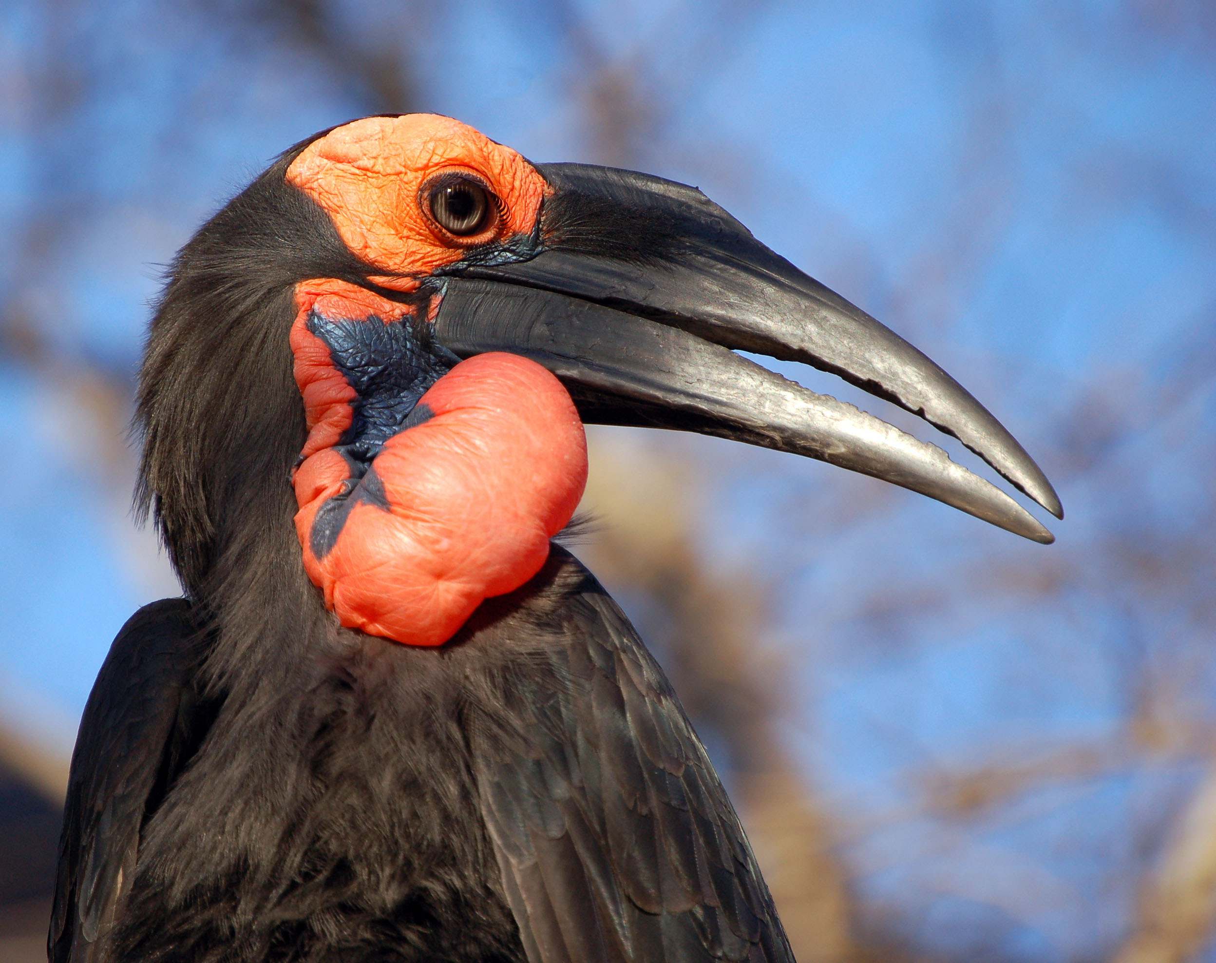 A female Southern Ground-hornbill at Philadelphia Zoo. Photograph shows side of upper body and head.